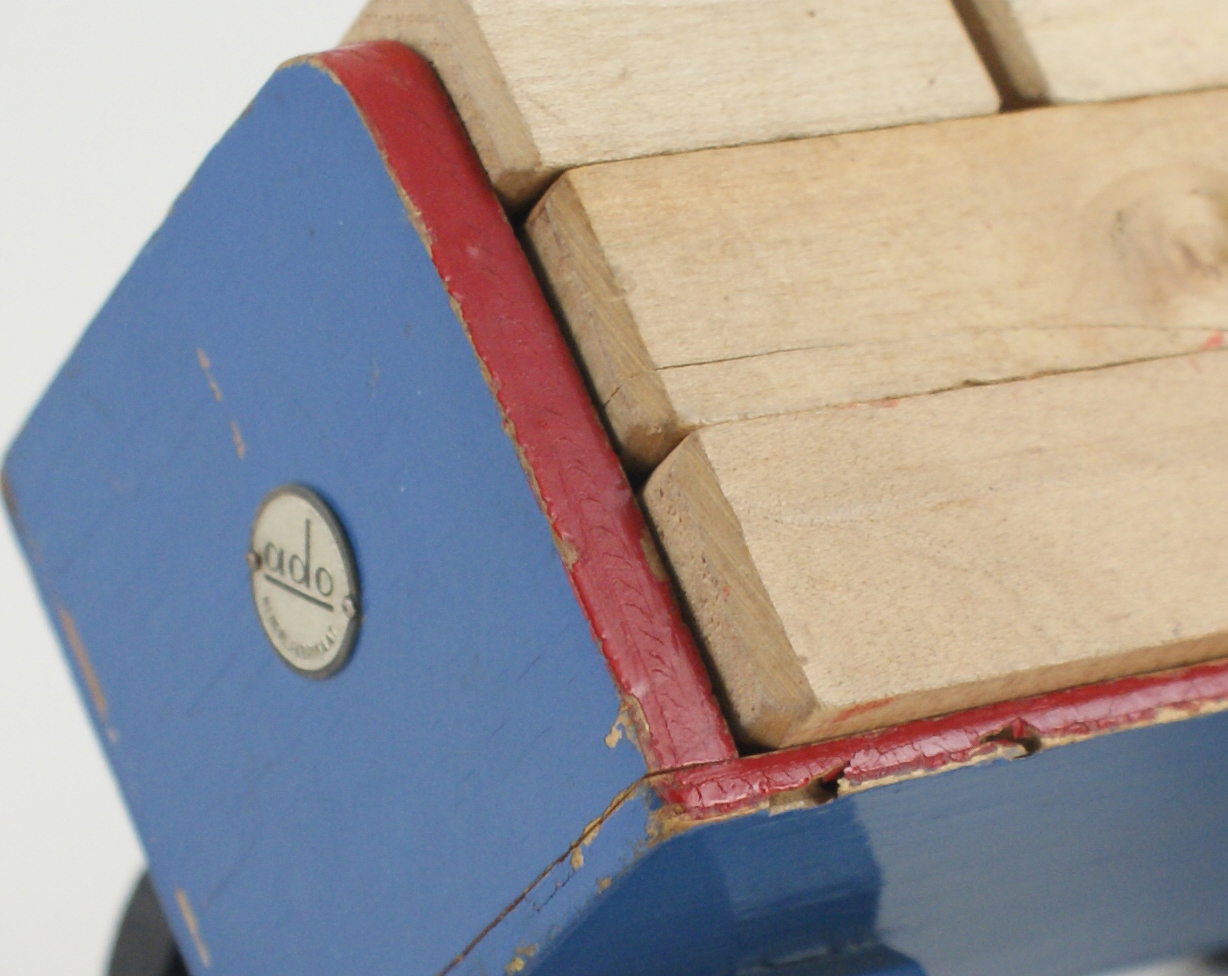 Emblem with logo of ado toy-manufacturer